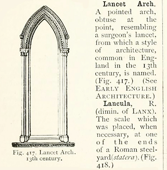 A 13th century lancet arch. An illustrated dictionary of words used in art and archaeology, 1883